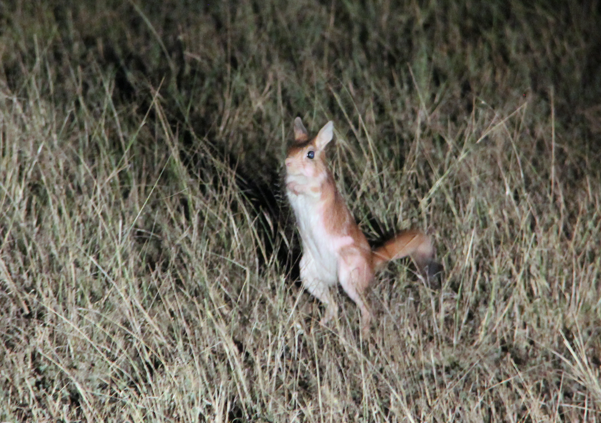 East African springhare Pedetes surdaster, on night safari trip, Amboseli NP, Kenya